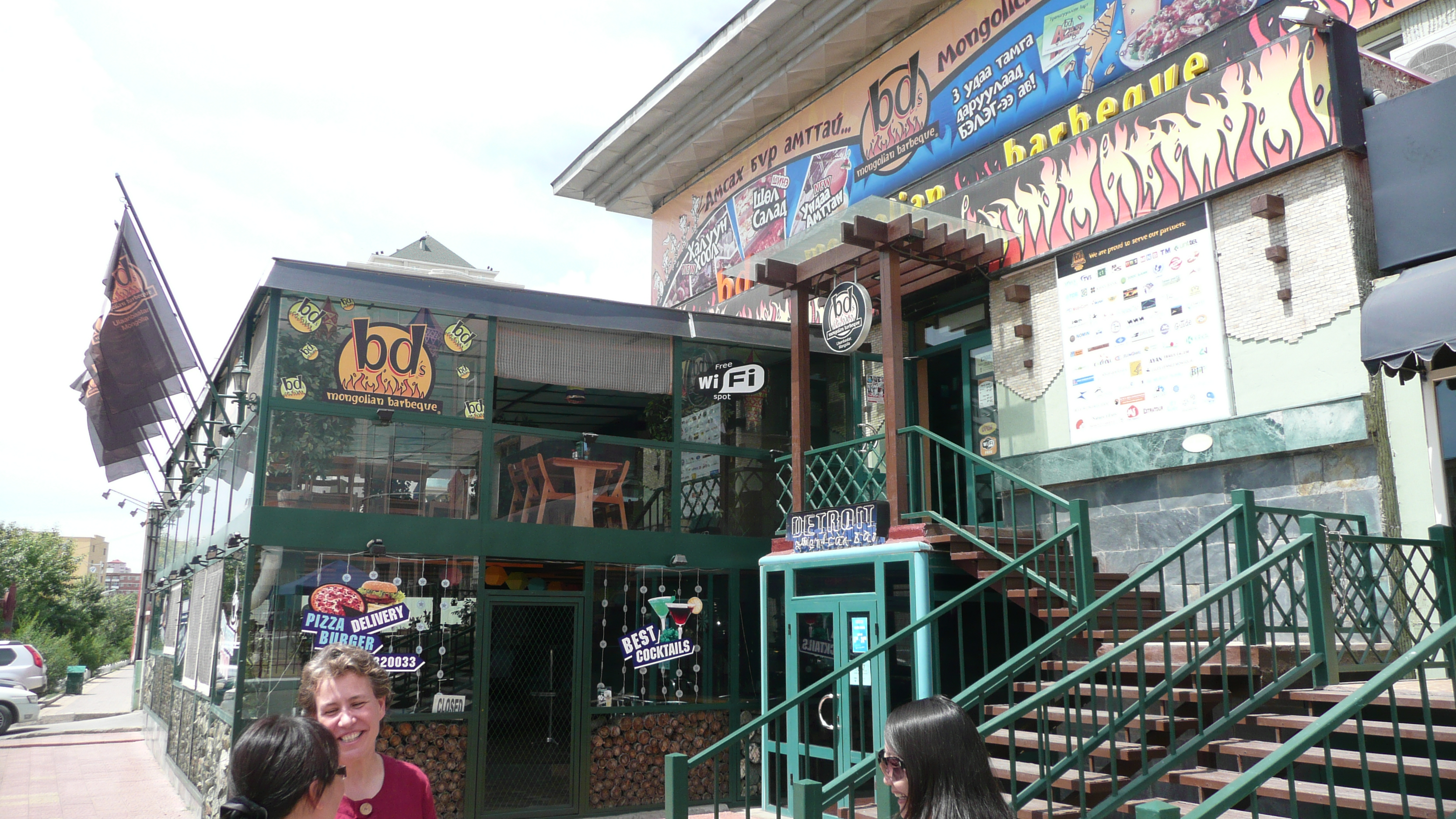 BD's Mongolian Barbeque Restaurant in Ulan Bator